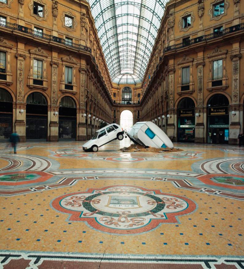 Fondazione Trussardi